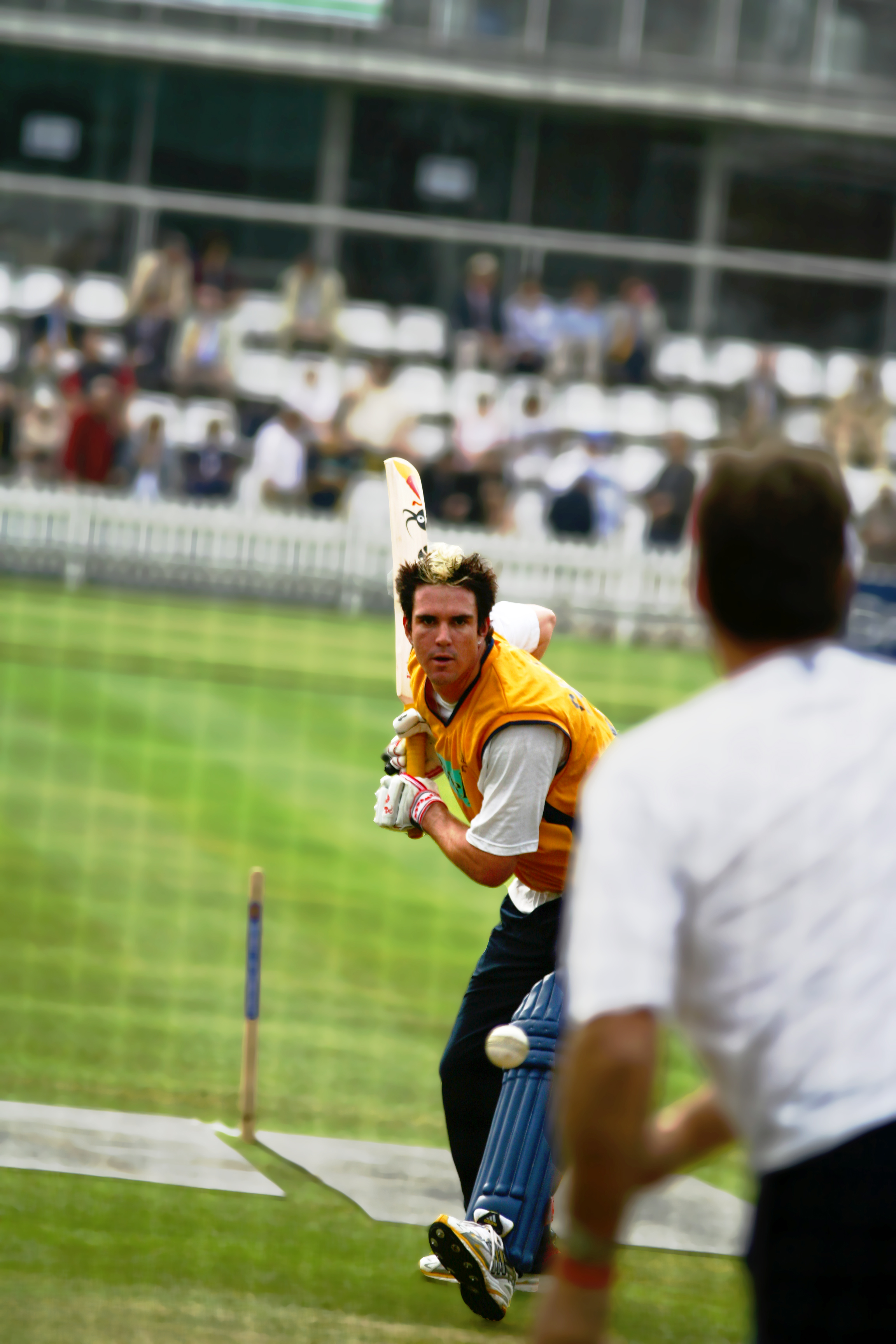 Kevin Pietersen at warming up in the nets at Lord's. Author: Miles A. Underwood